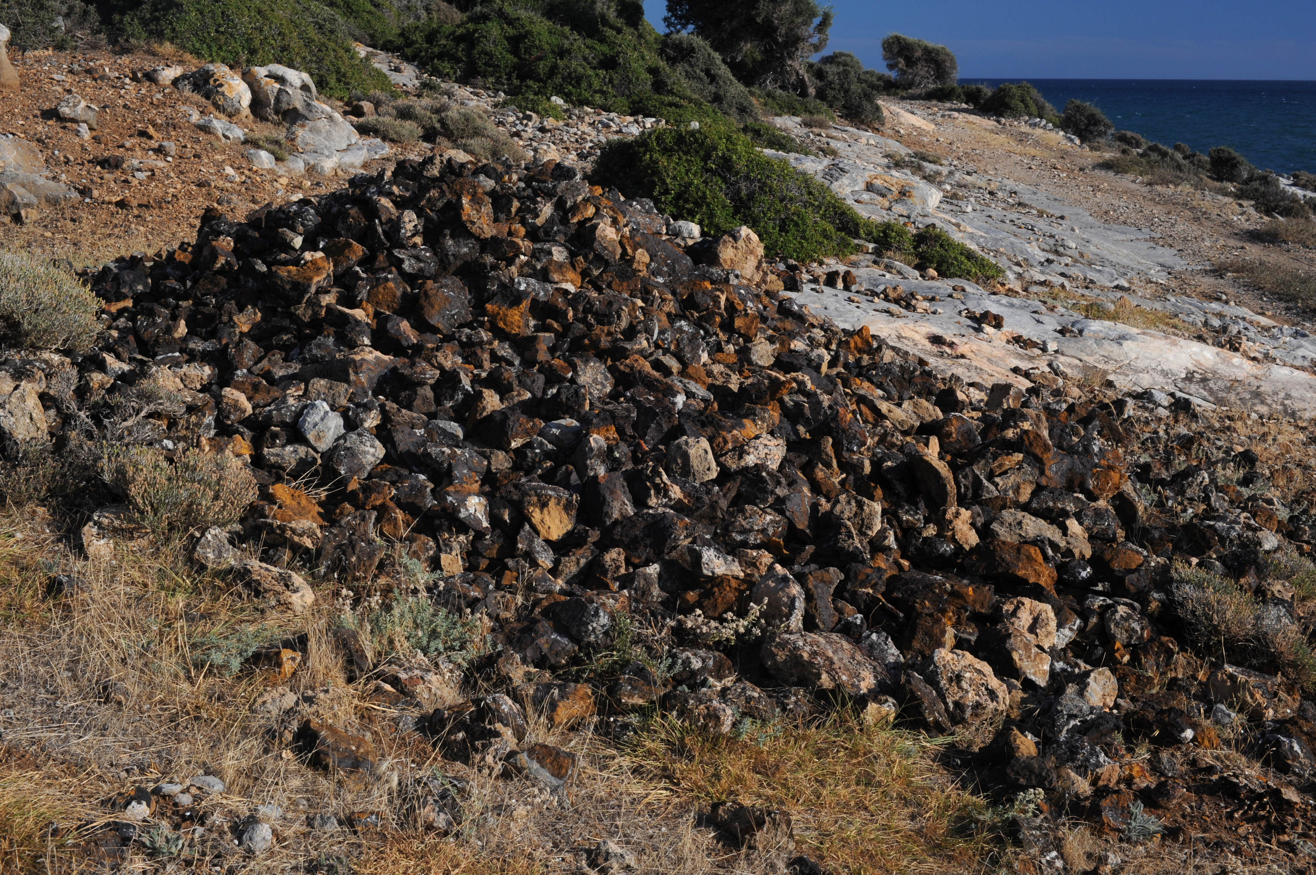 Iron ore mounds Marmaritsa, Maronia, Rhodope, Thrace, Greece.